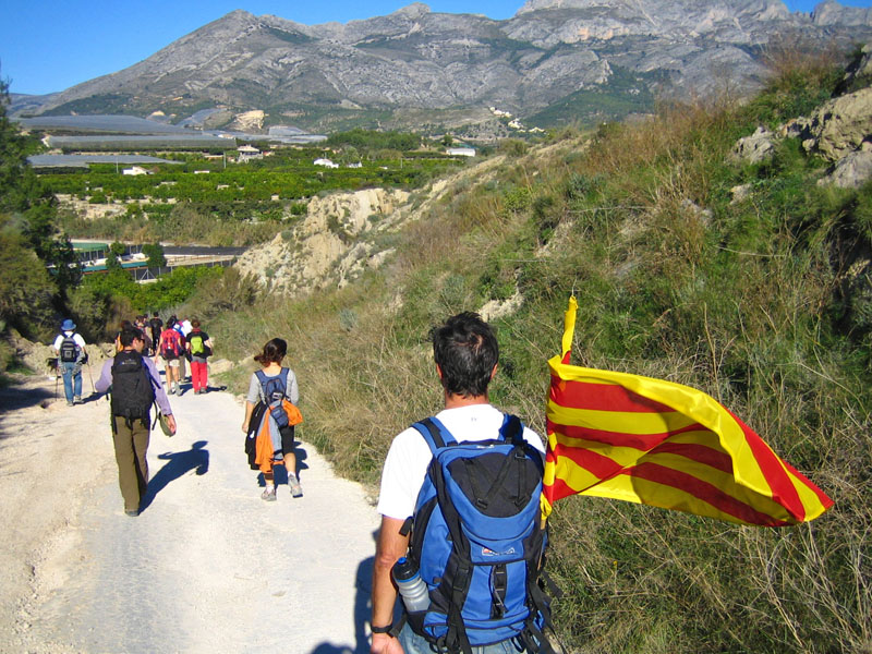 Photo of the cultural hiking group El Camí in the Region of Valencia, Spain.